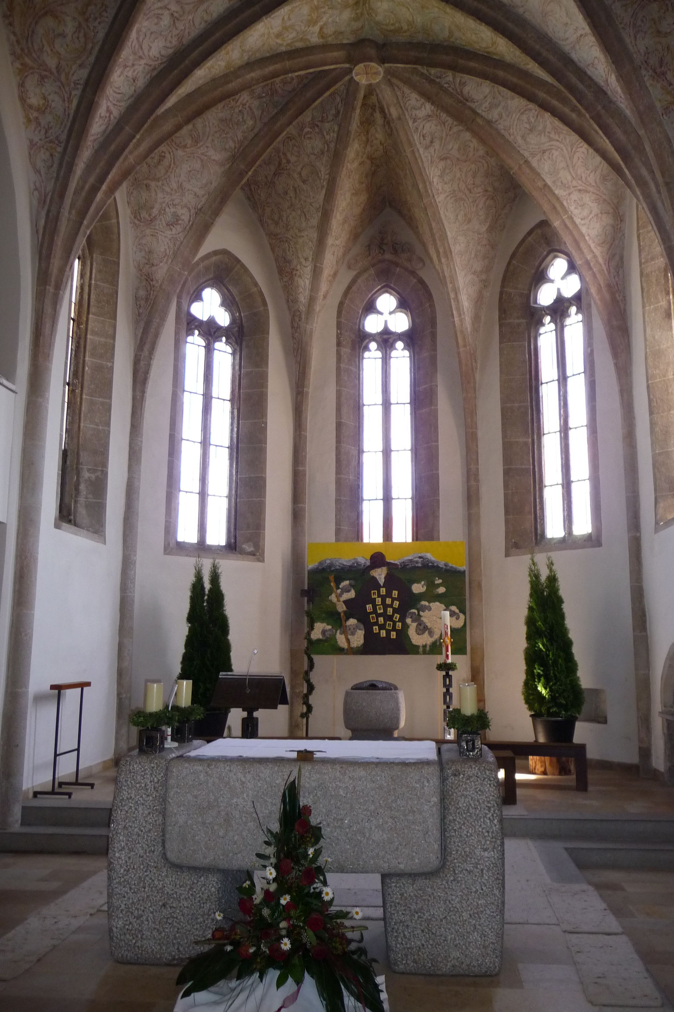 Parish Church Schenkenfelden